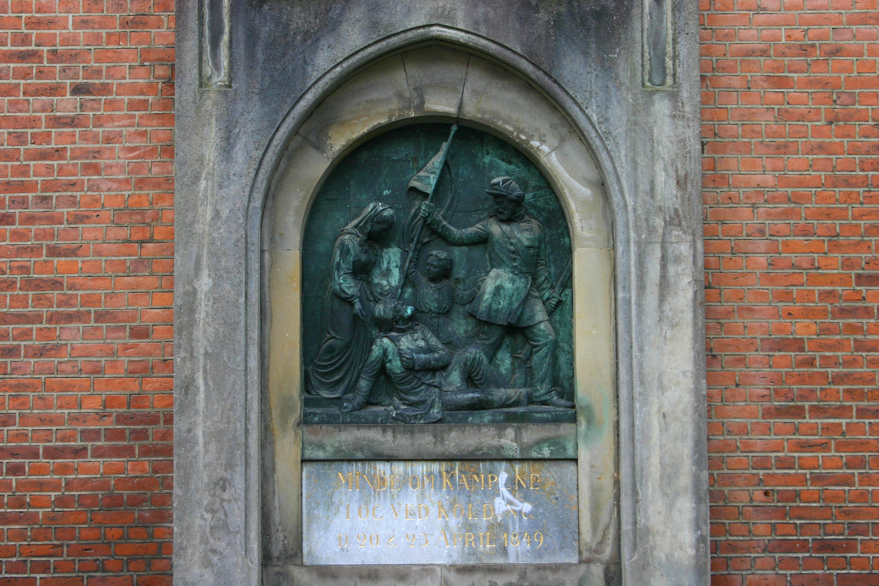 War memorial on the wall at Sct. Nicolai church, Denmark, Kolding.In memory of the dead in 20. april and 23. april 1849.